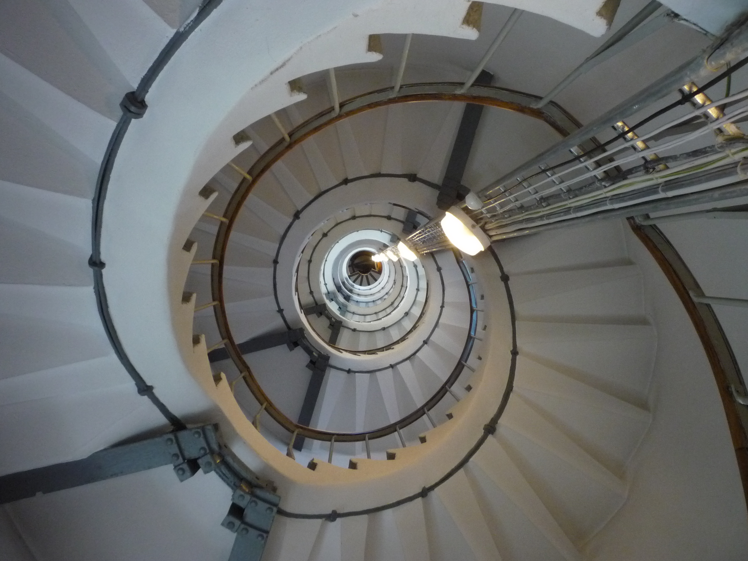 Tallinn rear lighthouse. View from bottom to top of tower from the inside.